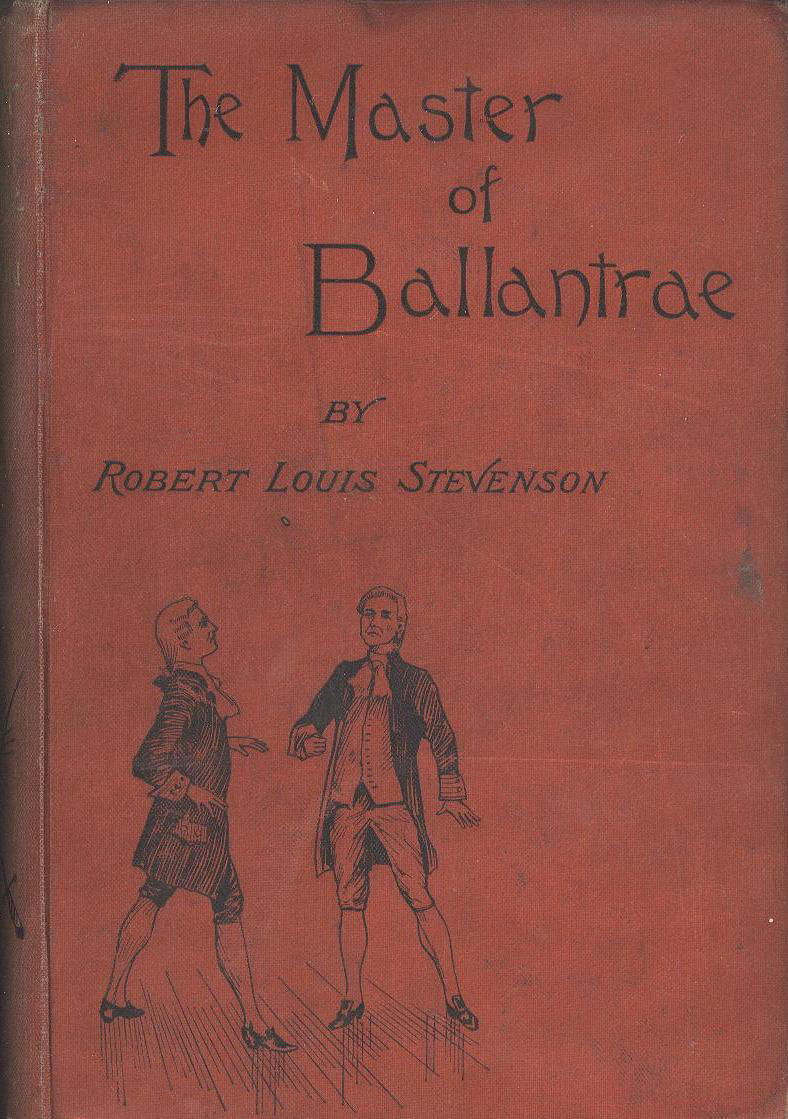 The first edition cover published by Cassel in 1889